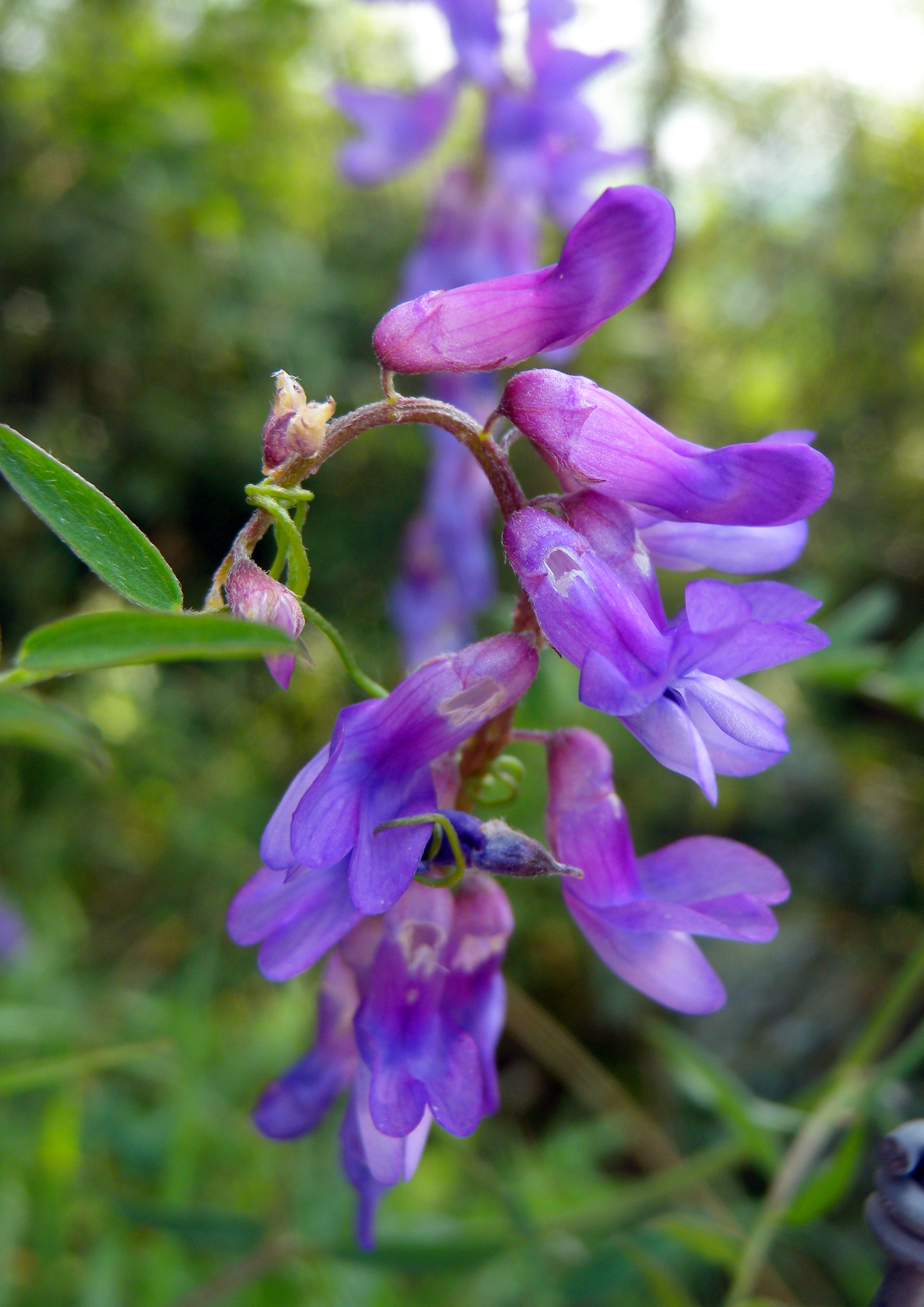 Nectar robbing, Vicia cracca s.l. (Fabaceae); Geschinen, Canton of Valais, Switzerland